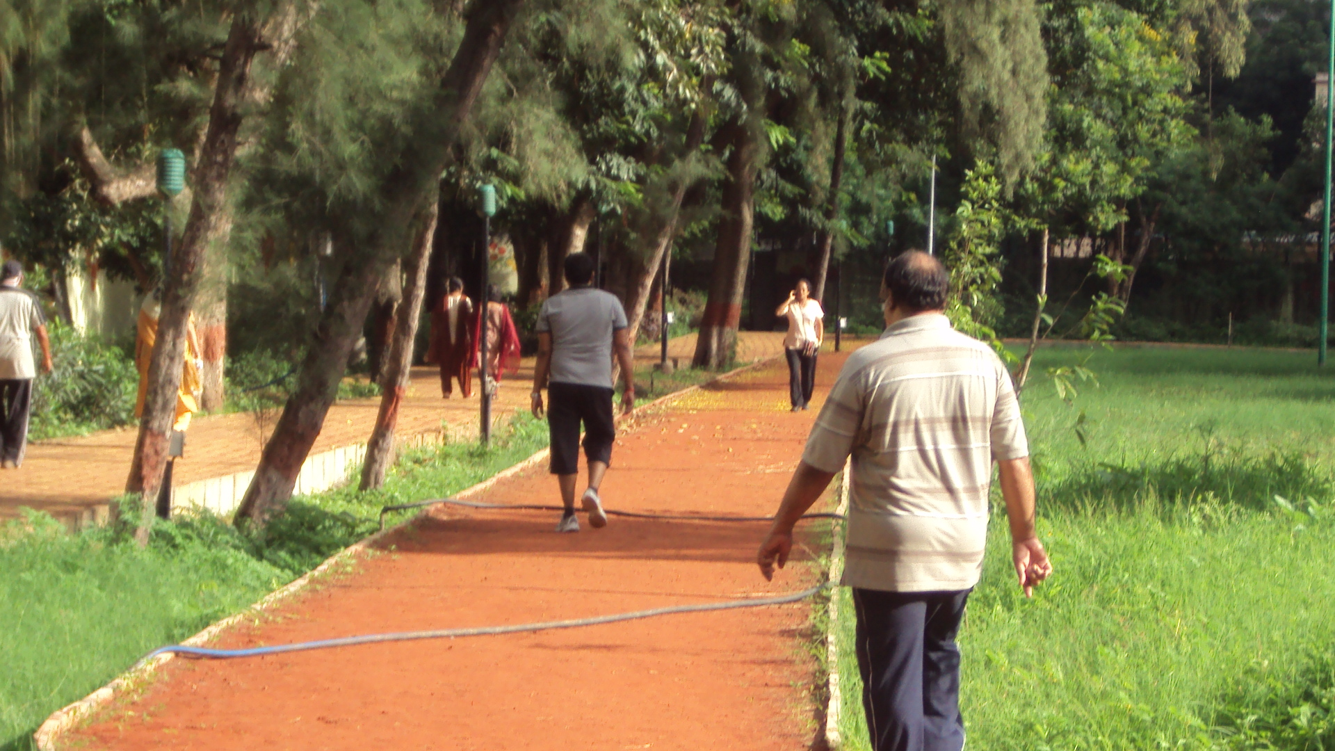 A jogging park at Pune, India